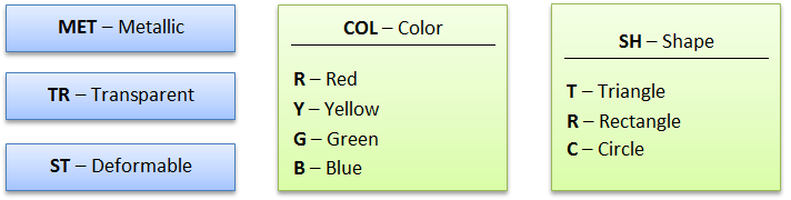 example of a features registry for a product configurator